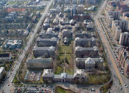 St. István hospital, Ferencváros, Budapest, Hungary, aerial photography